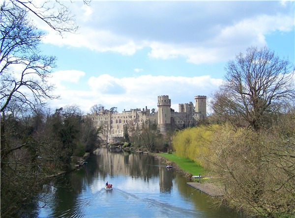 Warwick castle from the river Avon taken by kev747